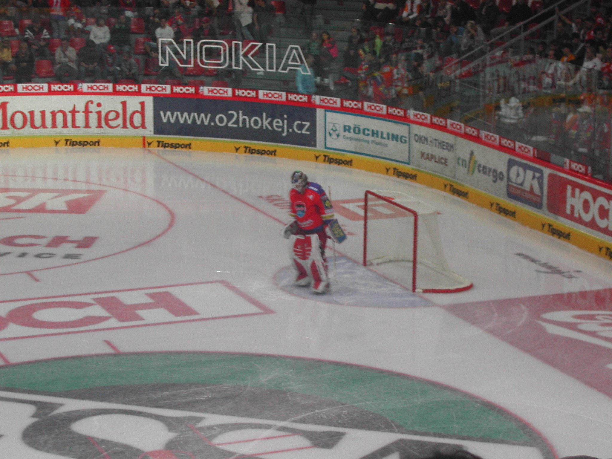 Roman Turek during a game between HC České Budějovice vs. HC Lasselsberger Plzeň.